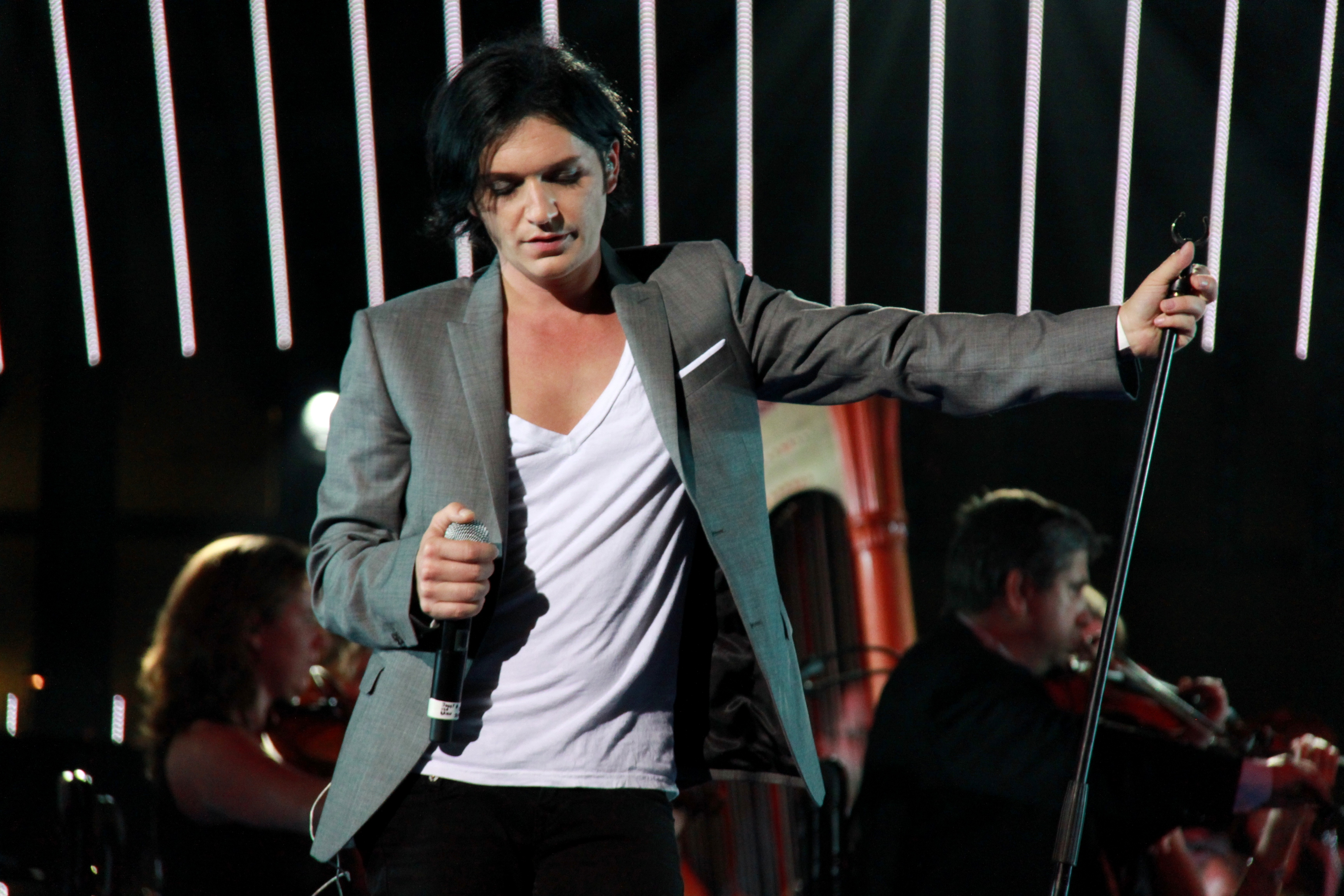 Brian Molko from Placebo performing at the launch of the Belgian Presidency on the Esplanade of the European Parliament in Brussels